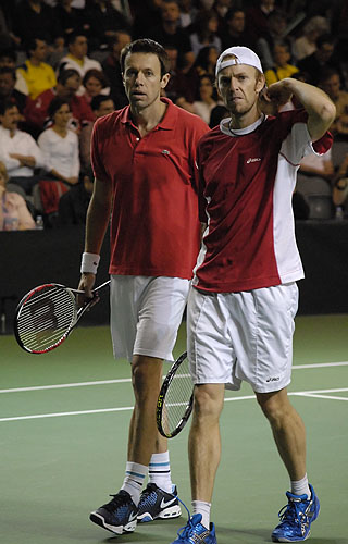 Daniel Nestor and Frédéric Niemeyer (Canada) during 2009 Davis Cup against Ecuador.